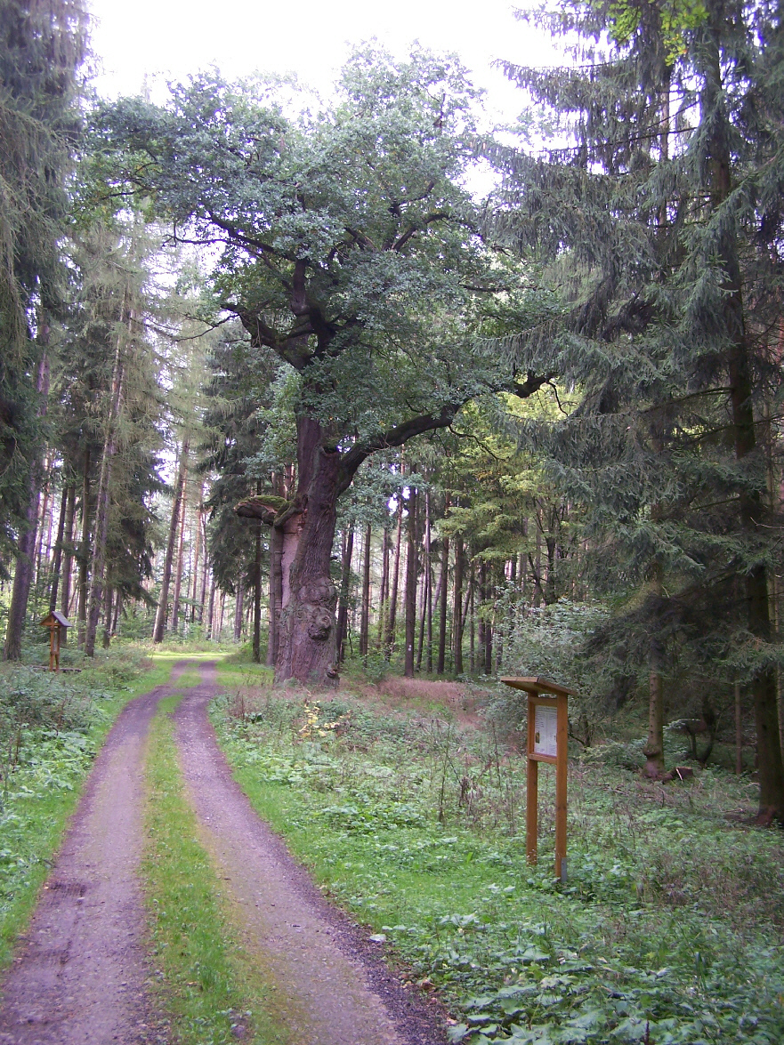 Tiefenort, in the forest, Gerichtseiche.